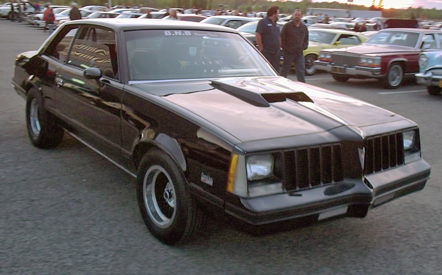 Pontiac Grand Am photographed in Laval, Quebec, Canada at Les chauds vendredis.